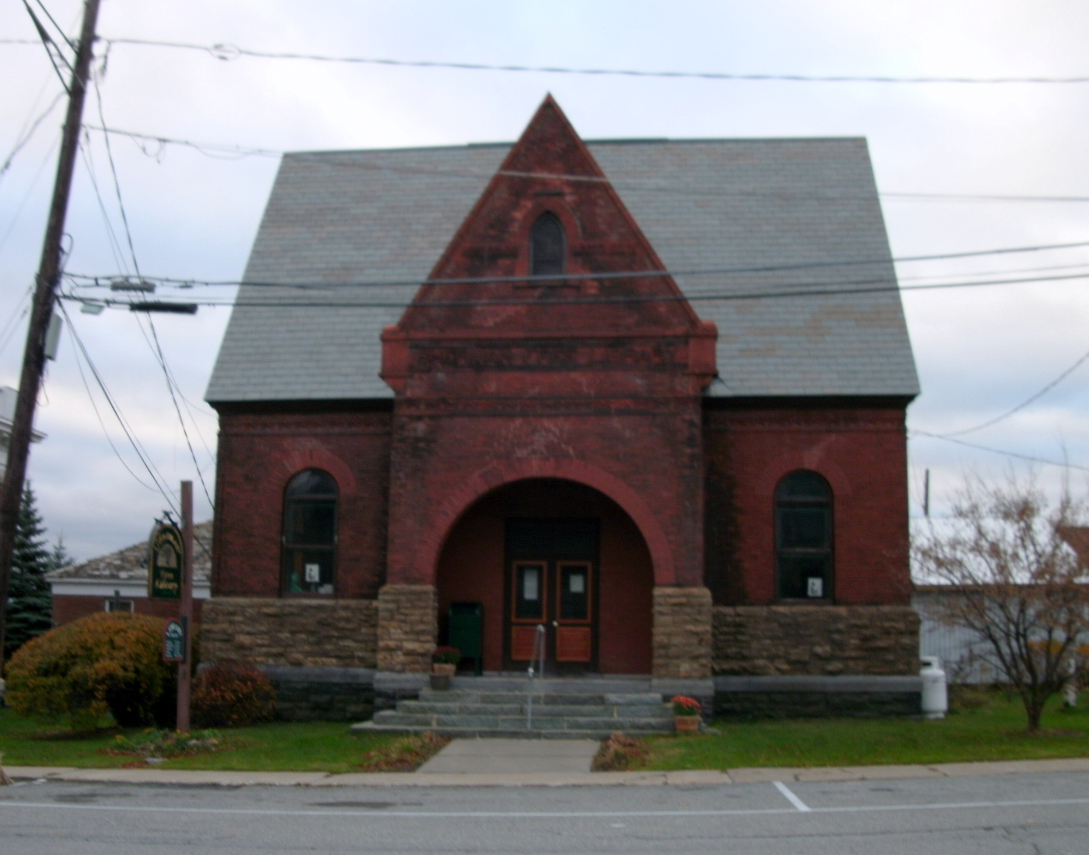 GE DIGITAL CAMERA Port Henry, New York